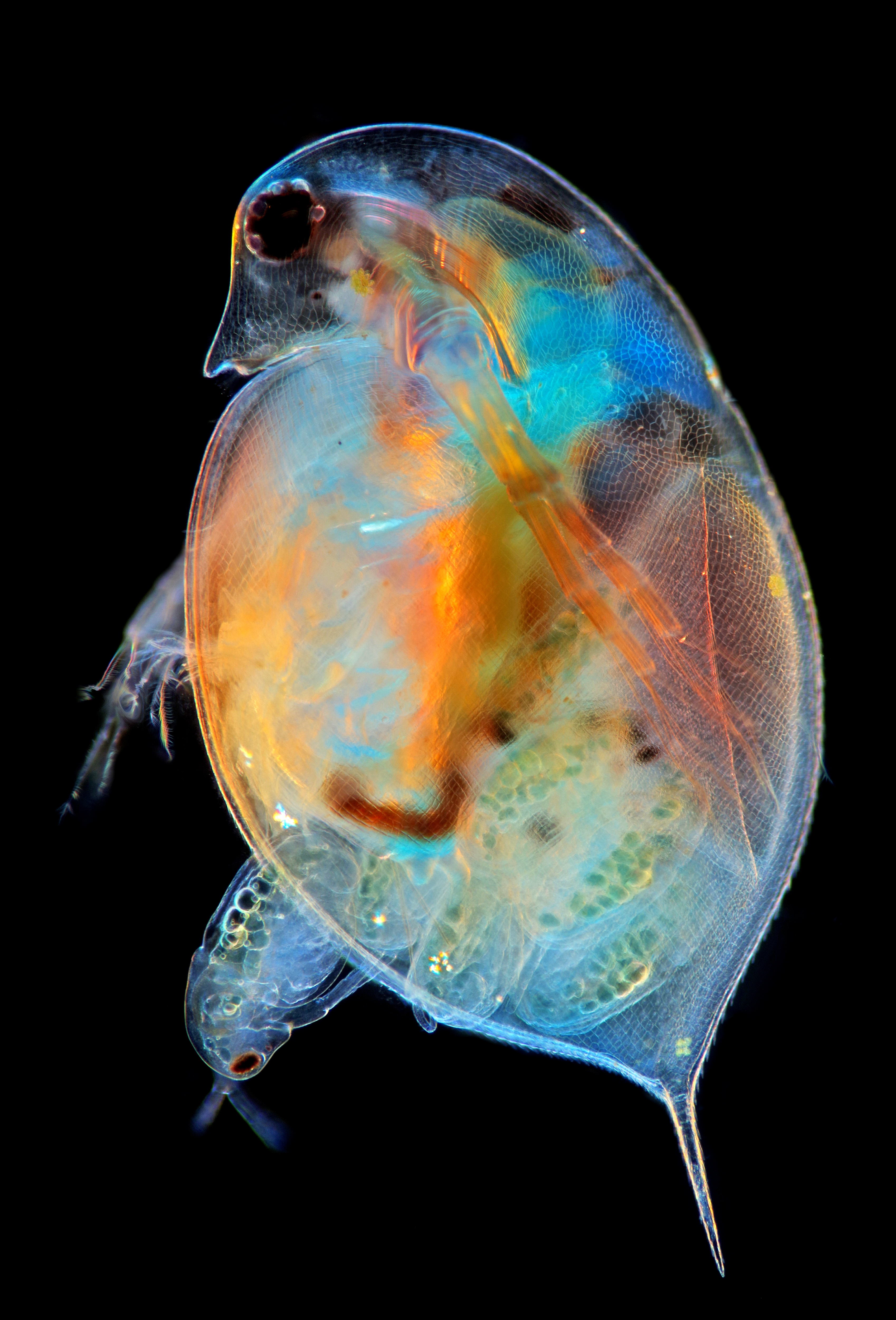 The image presents cladoceran from Daphnia genus giving birth. Magnification is 100X, technikque of the illumination: dark field and polarized light